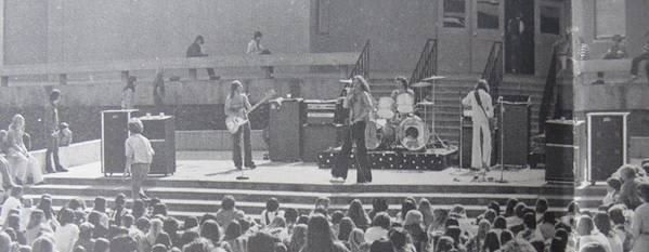 Van Halen playing a lunchtime concert at La Canada (Calif.) High School in September/October 1976